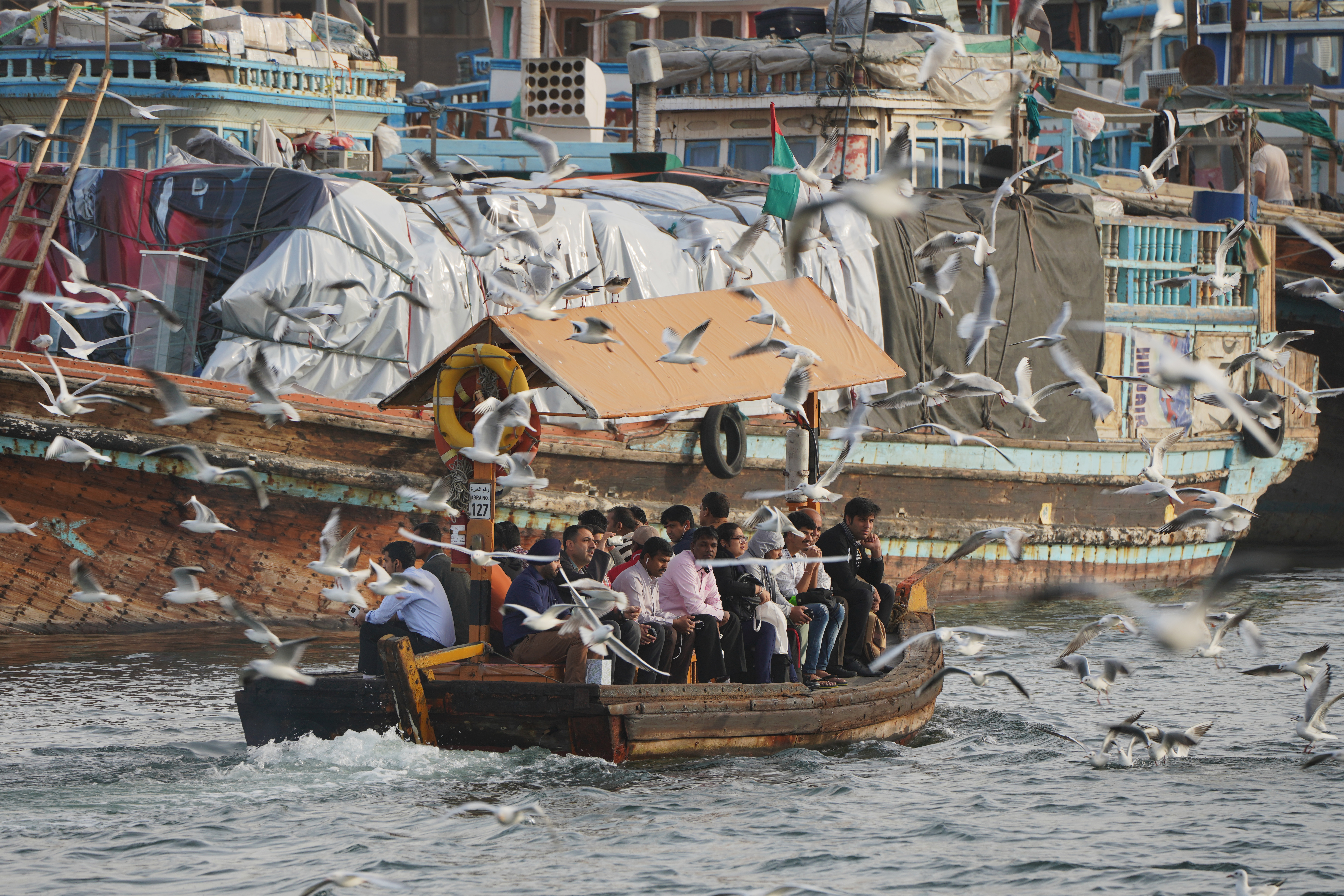 Abra on Dubai Creek in Dubai / United Arab Emirates